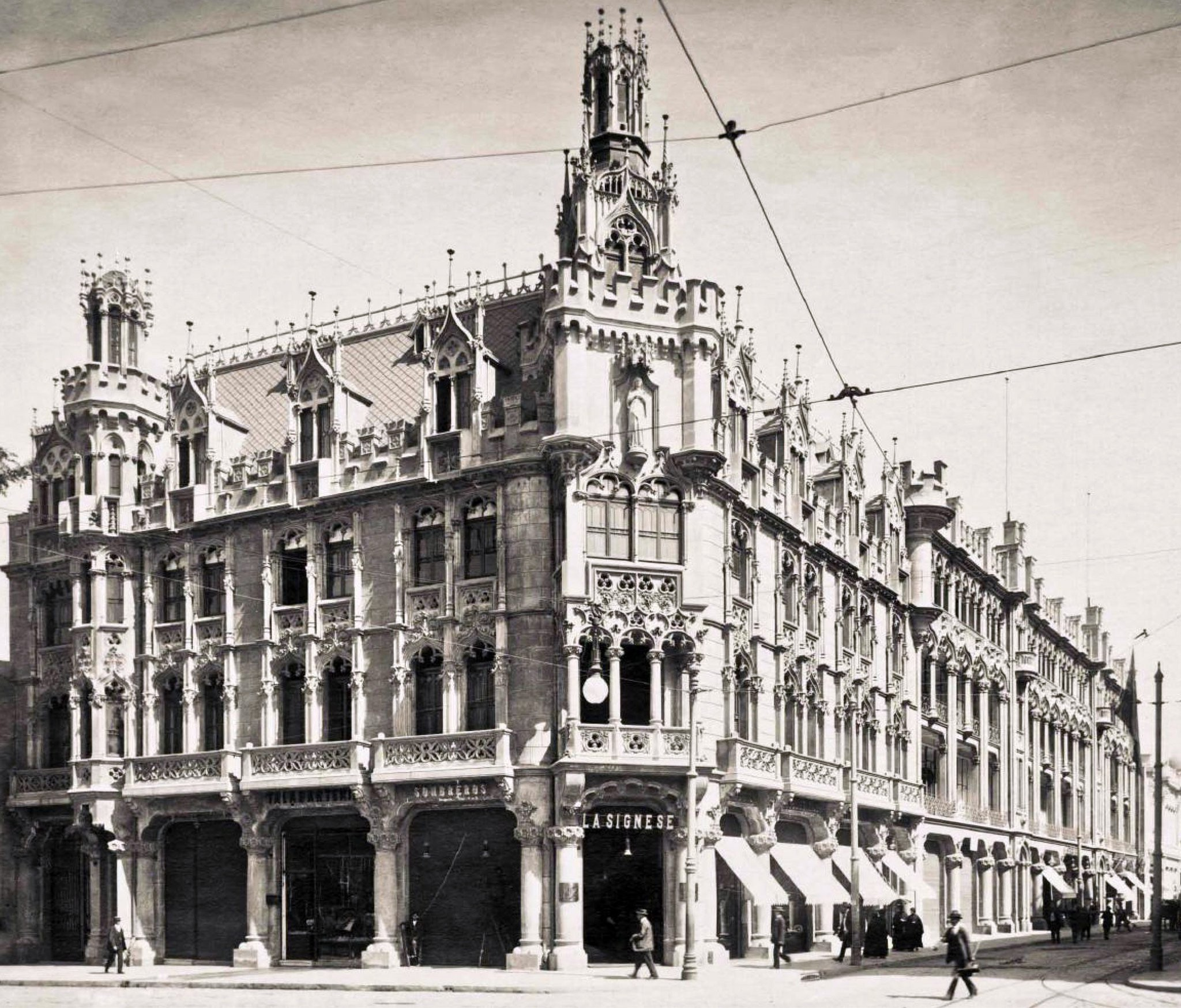 Photography with approach. Circa 1920.